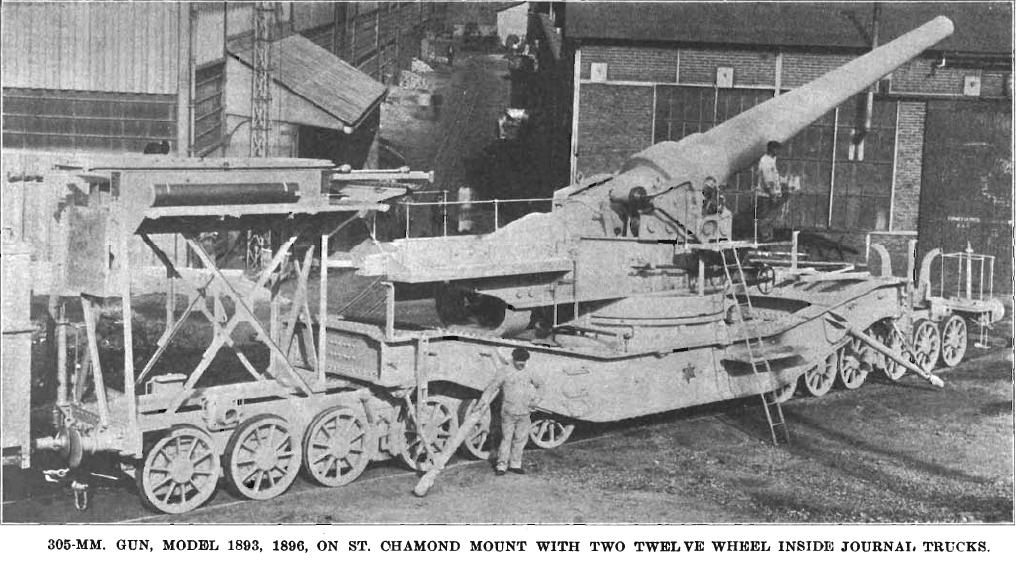 Photograph of French 305-mm Model 1893-1896 gun on St Chamond centre-pintle mounting.